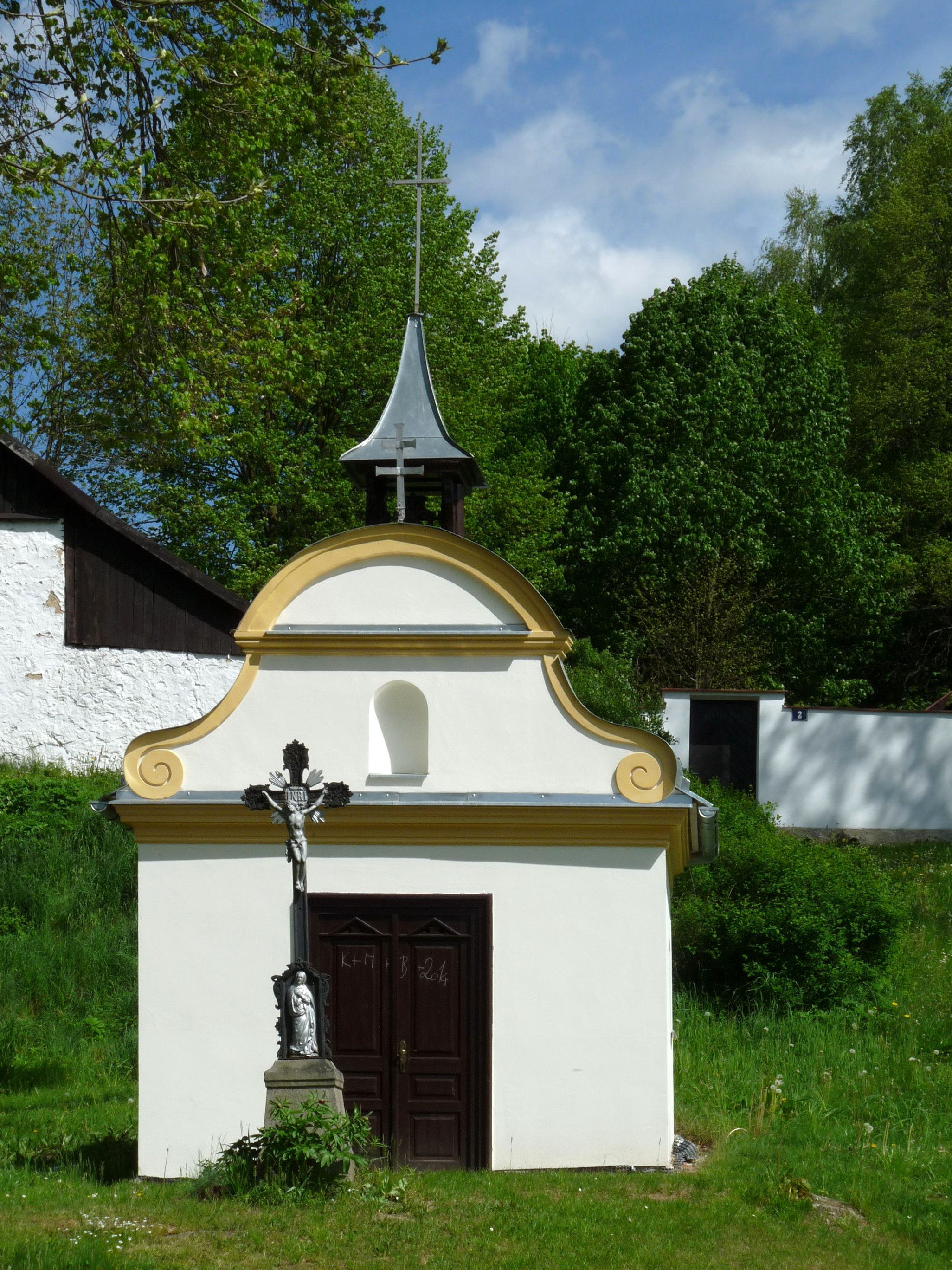 Kaple in the village of Simtany, Havlíčkův Brod District, Vysočina Region, Czech Republic.